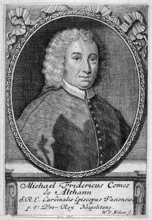 Michael Friedrich Althan viceroy of Neaples